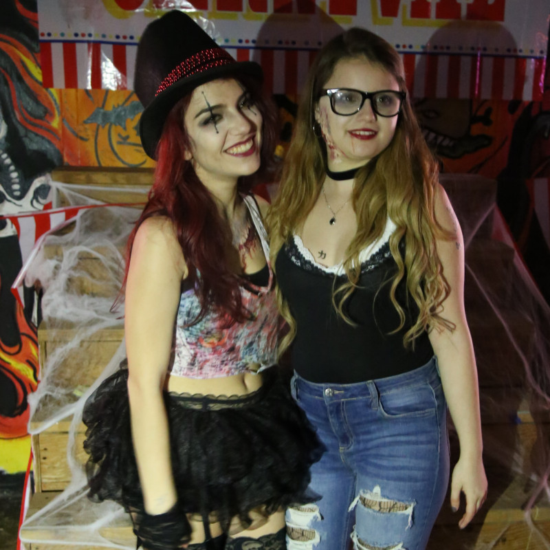 Purchase College hosts an annual "Zombie Prom" for its students where they can dance, jam to some music, and dress up as zombies.